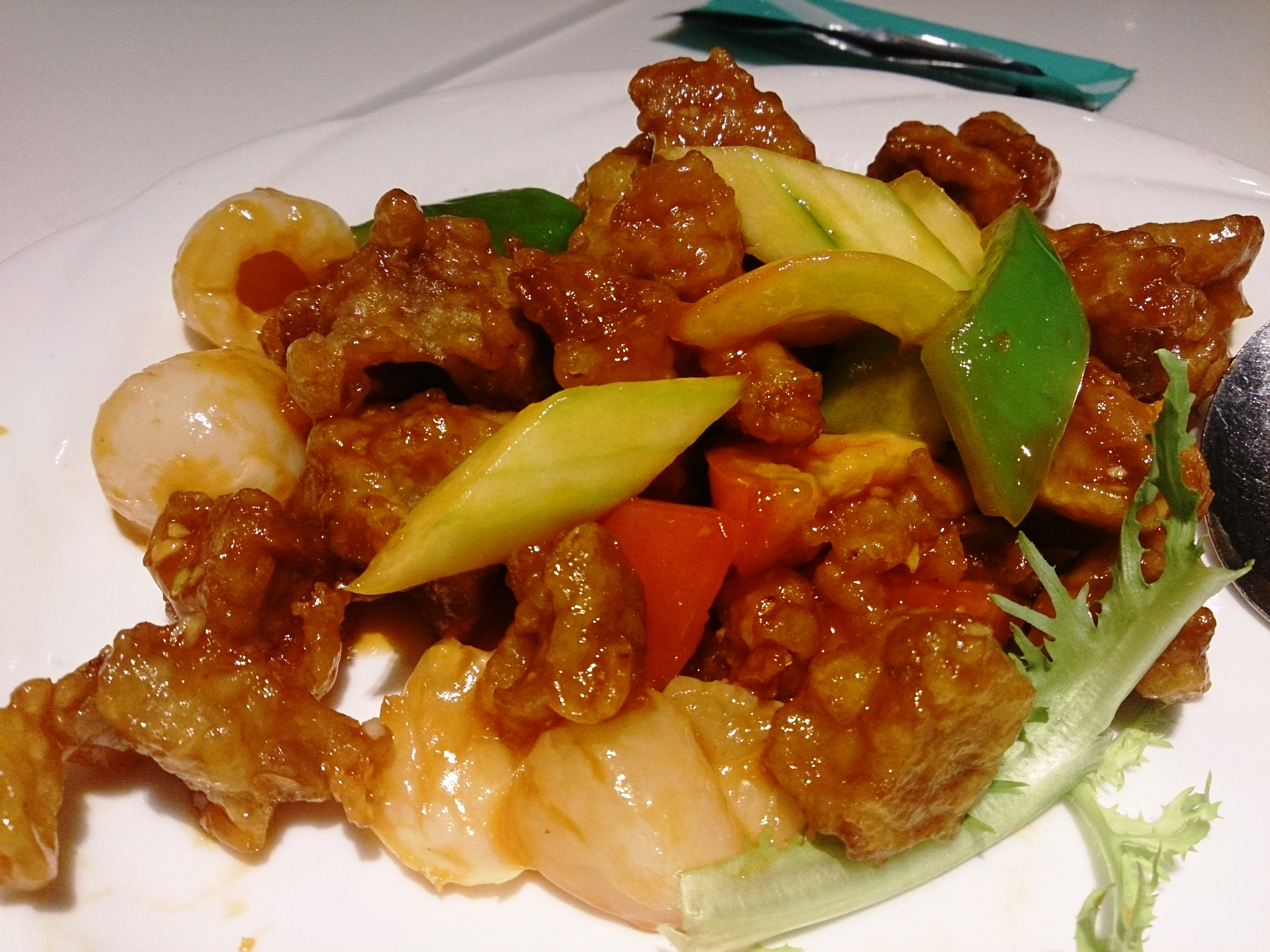 yum yum